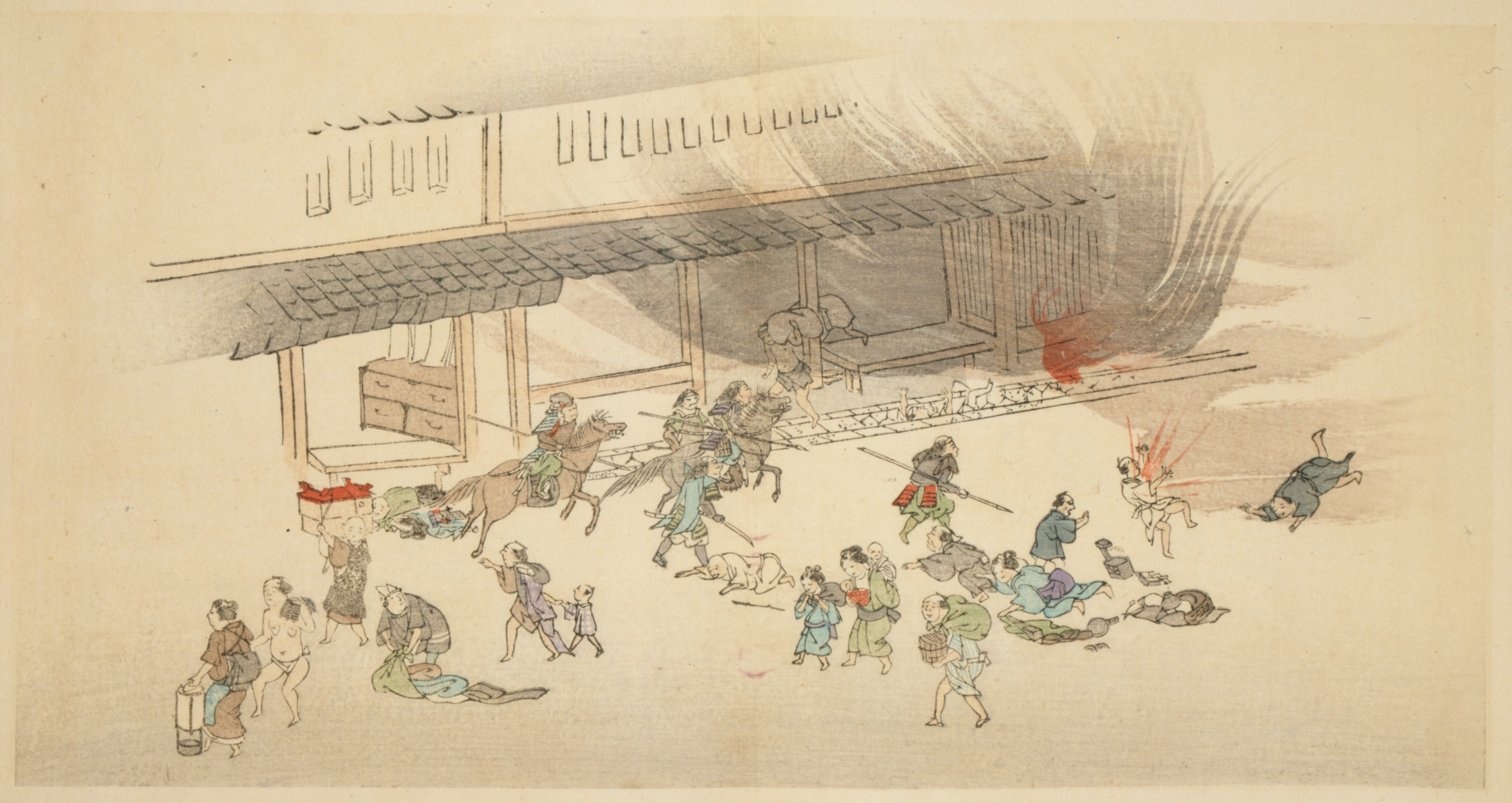 "Battle scene from the Hamaguri Gate Incident of 1864, Kyoto, Japan", an ukiyo-e print by Yūzan Mori, based on a drawing by Gorei Maekawa. LOC description: Ukiyo-e print illustration showing a burning building and people fighting.